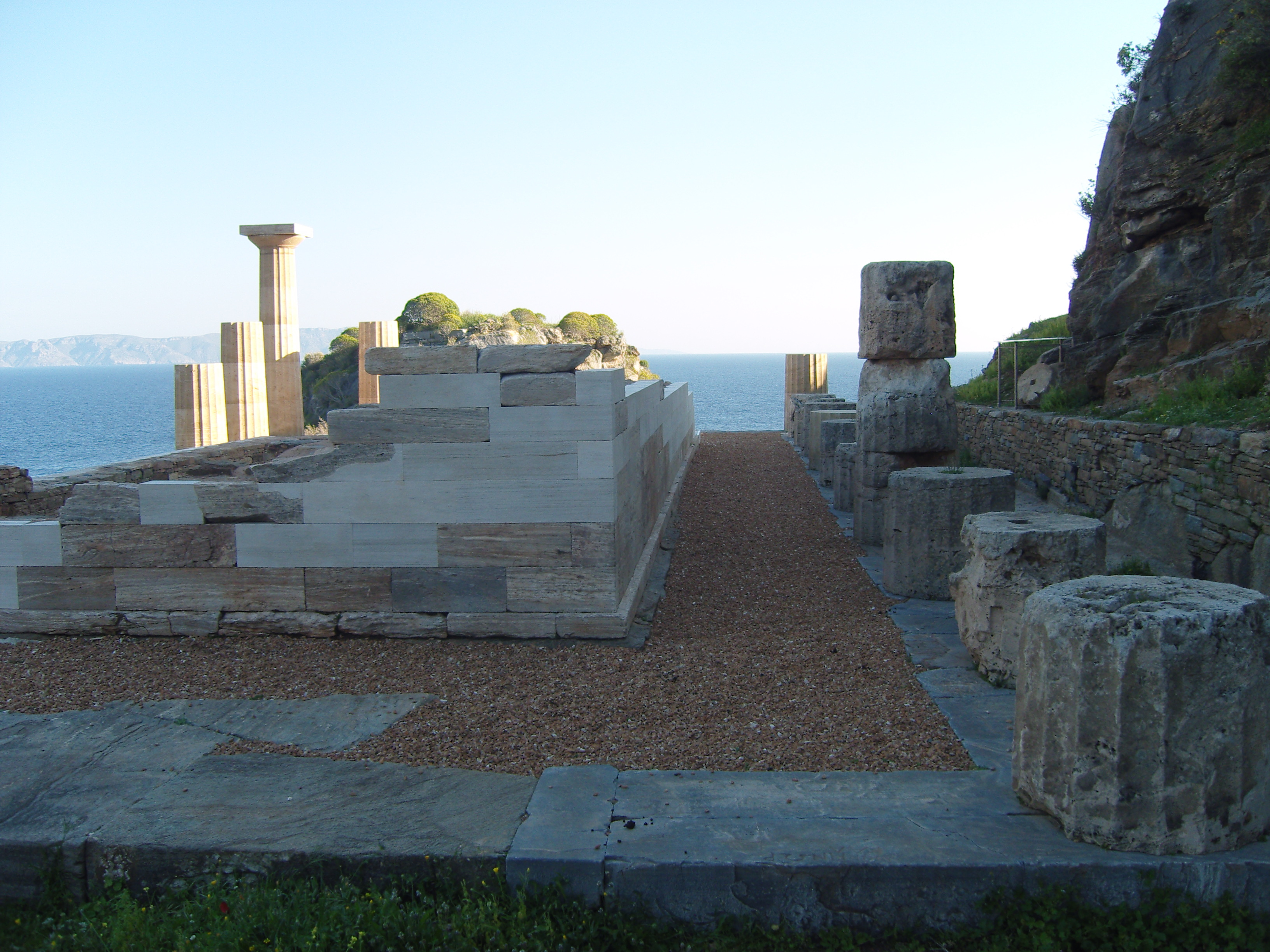 Temple attributed to Athena, Karthaia, Kea island, Greece